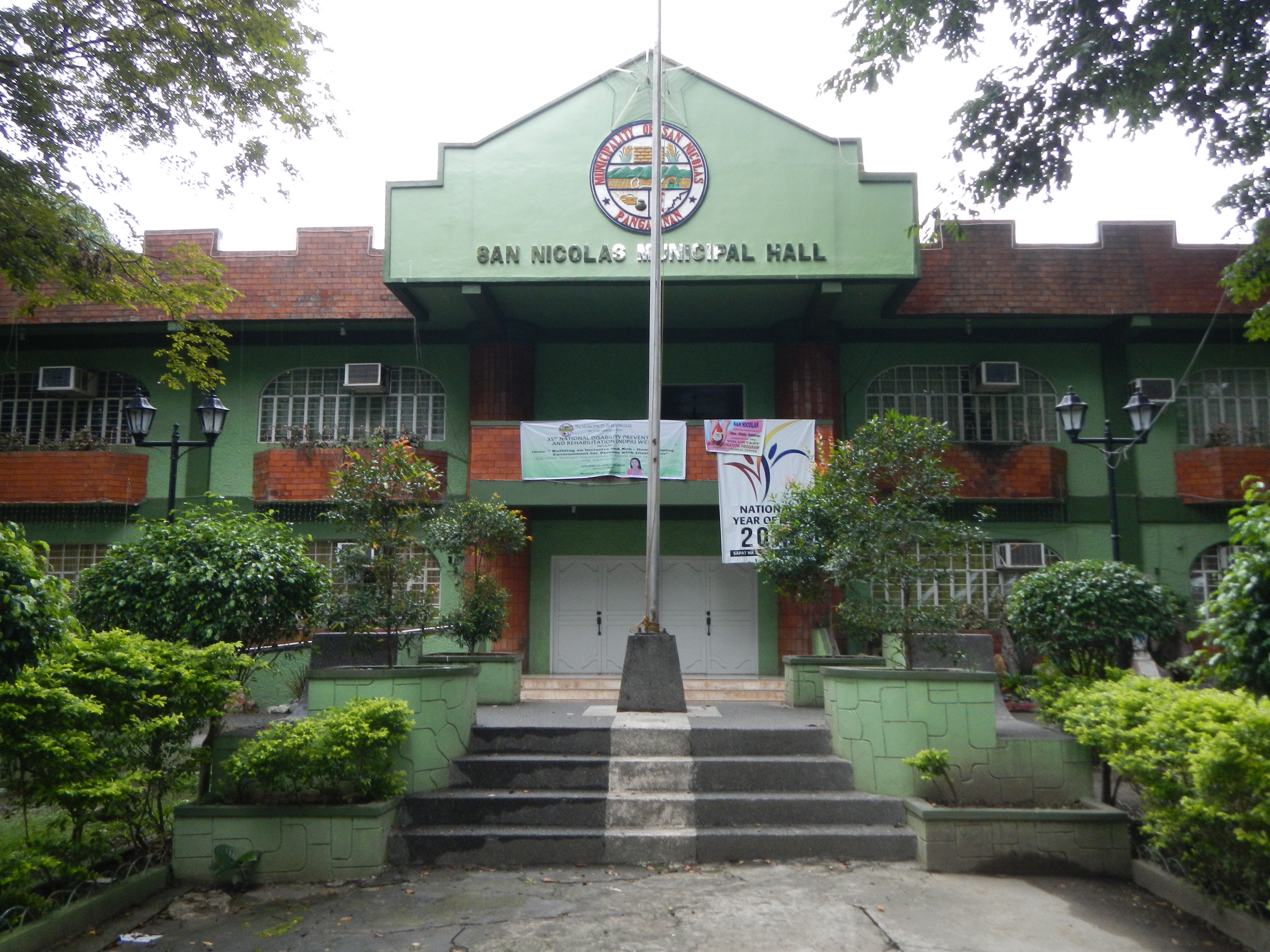 Municipal Hall Complex of San Nicolas, Pangasinan San Nicolas-Santa Fe Road (San Nicolas) Tayug-San Nicolas Road (San Nicolas) to San Nicolas-Natividad Road to San Nicolas-Santa Fe Road to Villaverde, Nueva Vizcaya from Santa Maria-Tayug Road to Rosales-Santa Maria Road surrounded by Caraballo Mountains and served by the Agno River, Category:Sitios and puroks of the Philippines List of barangays in Pangasinan, Barangays of Pangasinan, Barangay Legaspi, Tayug, Pangasinan 16.0476, 120.7403 Tayug, Pangasinan bounded by Category:Sitios and puroks of the Philippines List of barangays in Pangasinan, Barangays of Pangasinan, Barangays of Pangasinan, Barangays Nagkaysa, San Nicolas, Pangasinan 16.0684, 120.7612 Casaratan, San Nicolas, Pangasinan 16.0700, 120.7571 Poblacion West, San Nicolas, Pangasinan 16.0742, 120.7564 Poblacion East, San Nicolas, Pangasinan 16.0739, 120.7622 Cabitnongan, San Nicolas, Pangasinan 16.0767, 120.7709 Calaocan, San Nicolas, Pangasinan 16.0824, 120.7817 Santa Maria West, San Nicolas, Pangasinan 16.0968, 120.7931 Santa Maria East, San Nicolas, Pangasinan 16.1142, 120.8059 Cacabugaoan, San Nicolas, Pangasinan 16.1019, 120.8358 San Nicolas, Pangasinan accessed also from Highway from Pangasinan to Nueva Ecija Verde trail Nueva Ecija-Pangasinan Road Pangasinan-Nueva Ecija Interprovincial Road Latitude: 15°39'24.84" Longitude: 120°49'35.76" Villa Verde Road Villaverde Trail short cut linking Pangasinan to Nueva Vizcaya, specifcially linking Santa Fe, Nueva Vizcaya to the upland Barangays Malico 16.1401, 120.8284 and Fianza 16.1531, 120.8099 San Nicolas, Pangasinan accessed from or along Carmen Junction-Manat Road, KM 172+ (-289) - KM 189+250 and from MacArthur Highway (Rosales, Pangasinan section) MacArthur Highway or Manila North Road) Philippine highway network.)